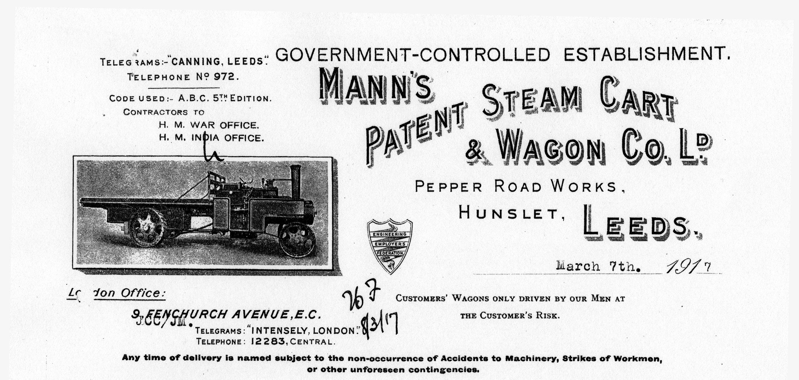 scanned by author from 90 year old document